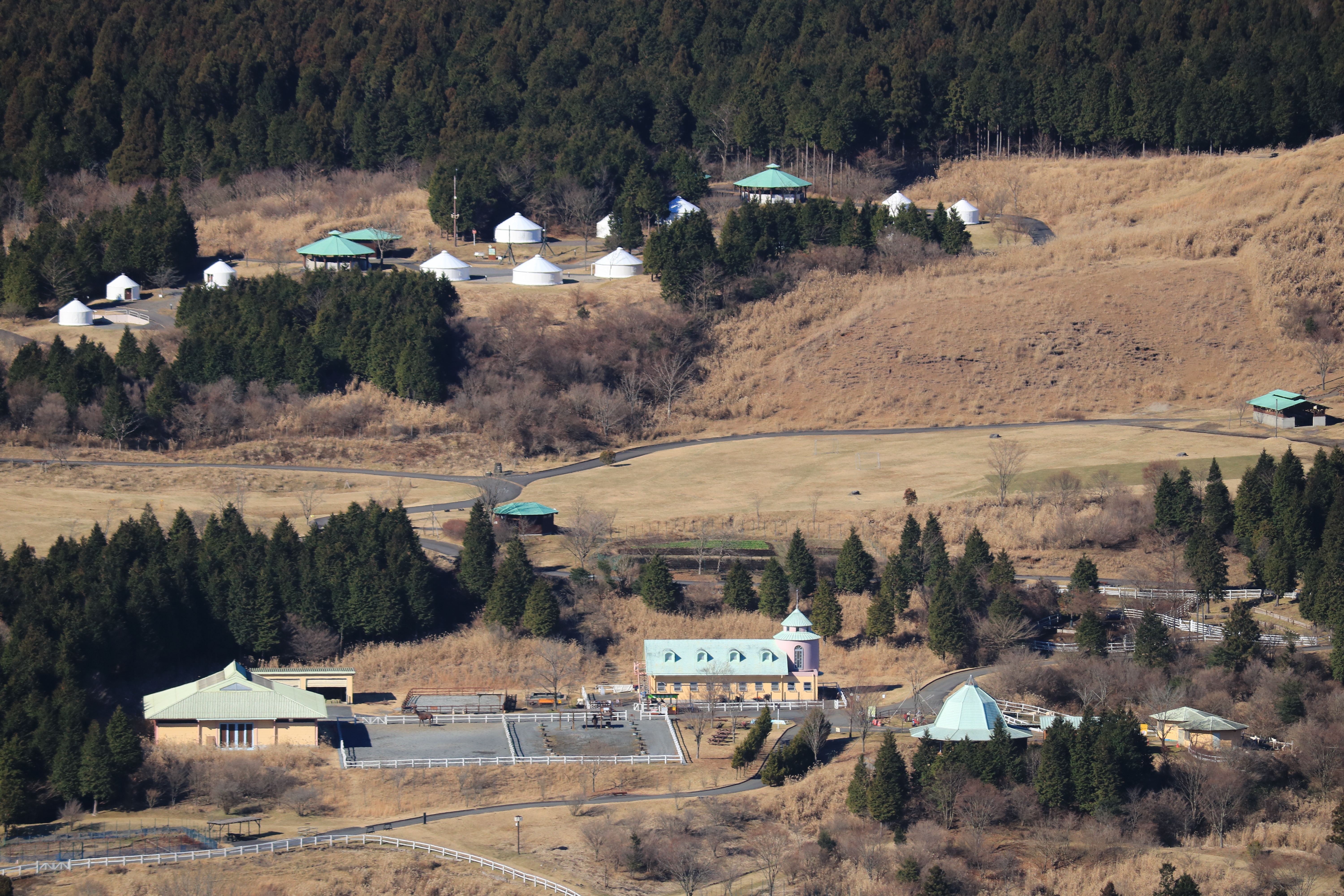 Mount Fuji Children's World seen from Mount Echizen in Fuji, Shizuoka prefecture, Japan.